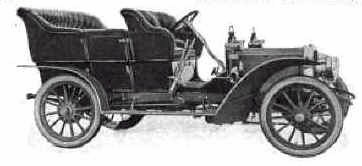 1905 Speedway Side Entrance Tonneau made by the Gas Engine & Power Co. of Morris Heights, NY